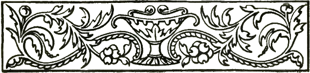 Black header decoration from the first page of The Ballad of Reading Gaol